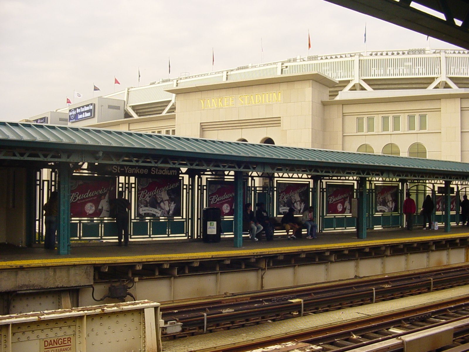 View of en:161st Street – Yankee Stadium (IRT Jerome Avenue Line) station, southbound platform, with the current Yankee Stadium in the background.